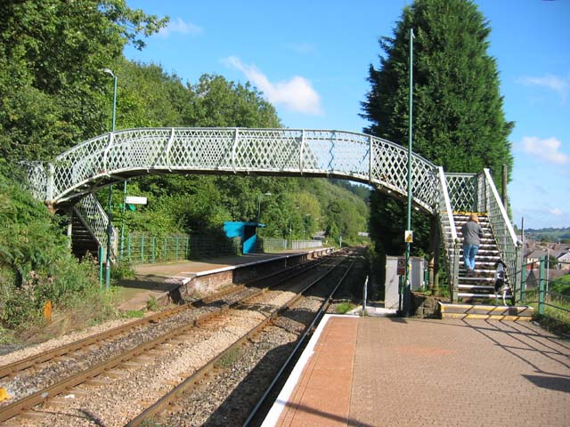 Llanbradach railway station Original description: Llanbradach Station On the Rhymney Valley line